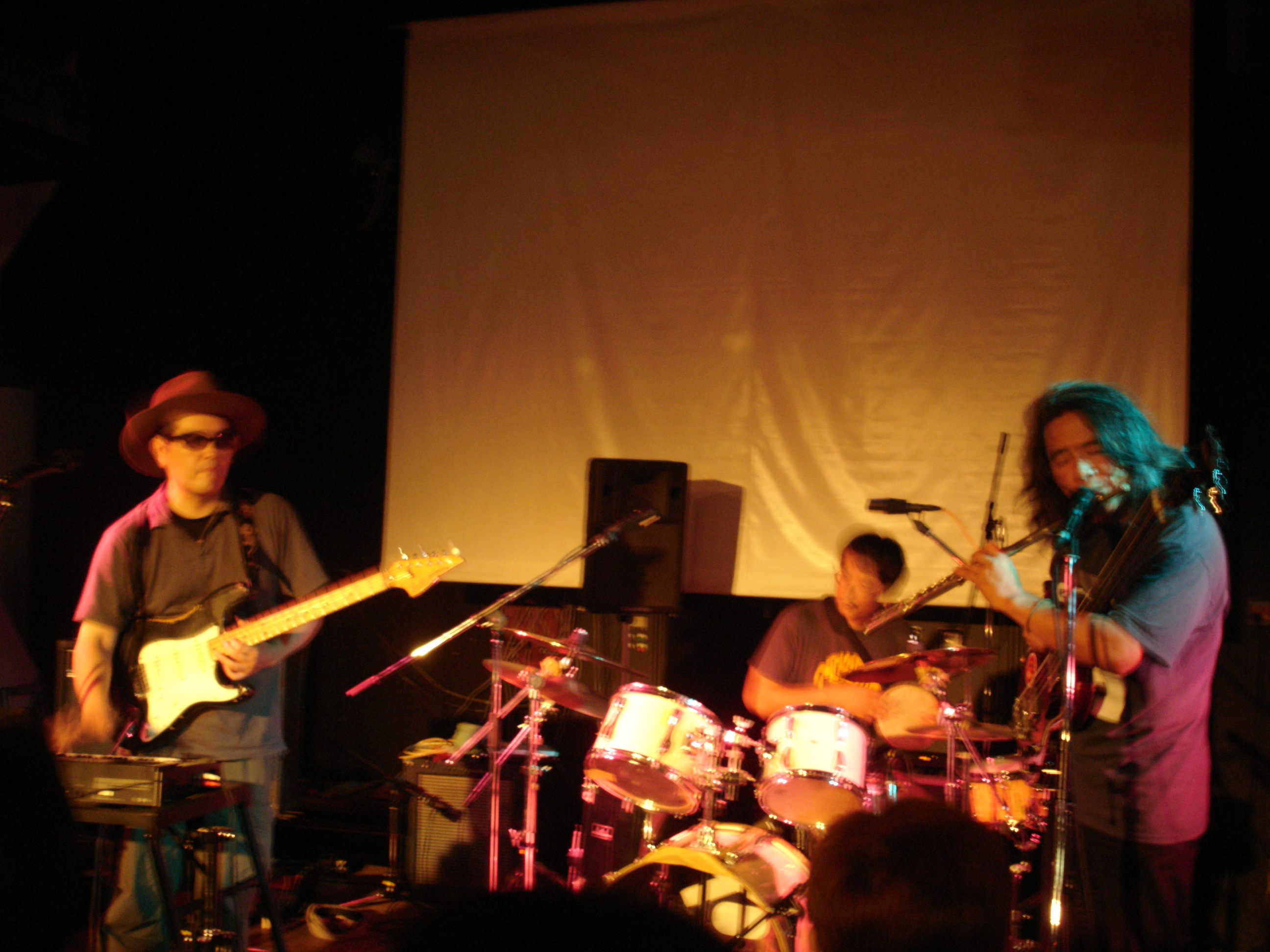 Japanese band Ruins live